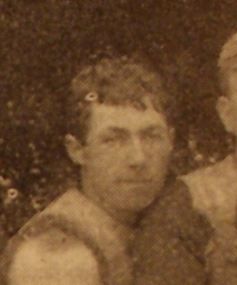 Photo of Pat Considine in the Punch Newspaper published on 24 August 1899